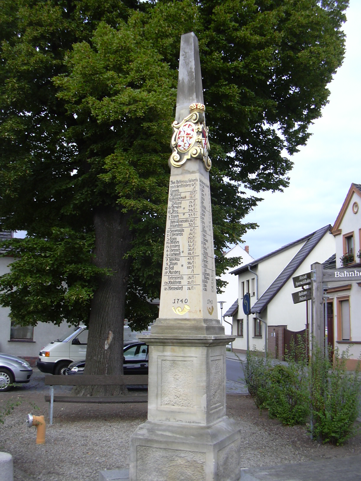 Historic Saxon post mile column, 18th century; example Lübbenau, Spreewald/Germany